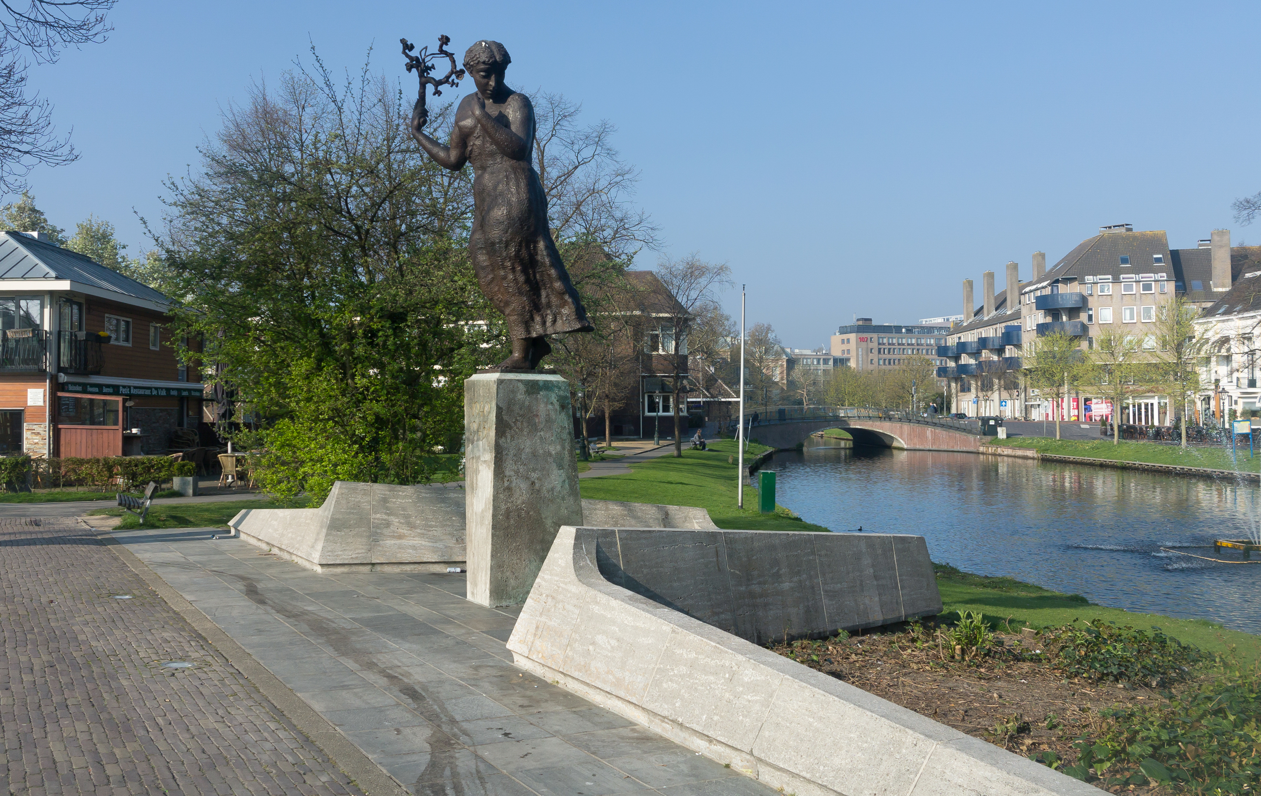 Leiden, Liberation memorial